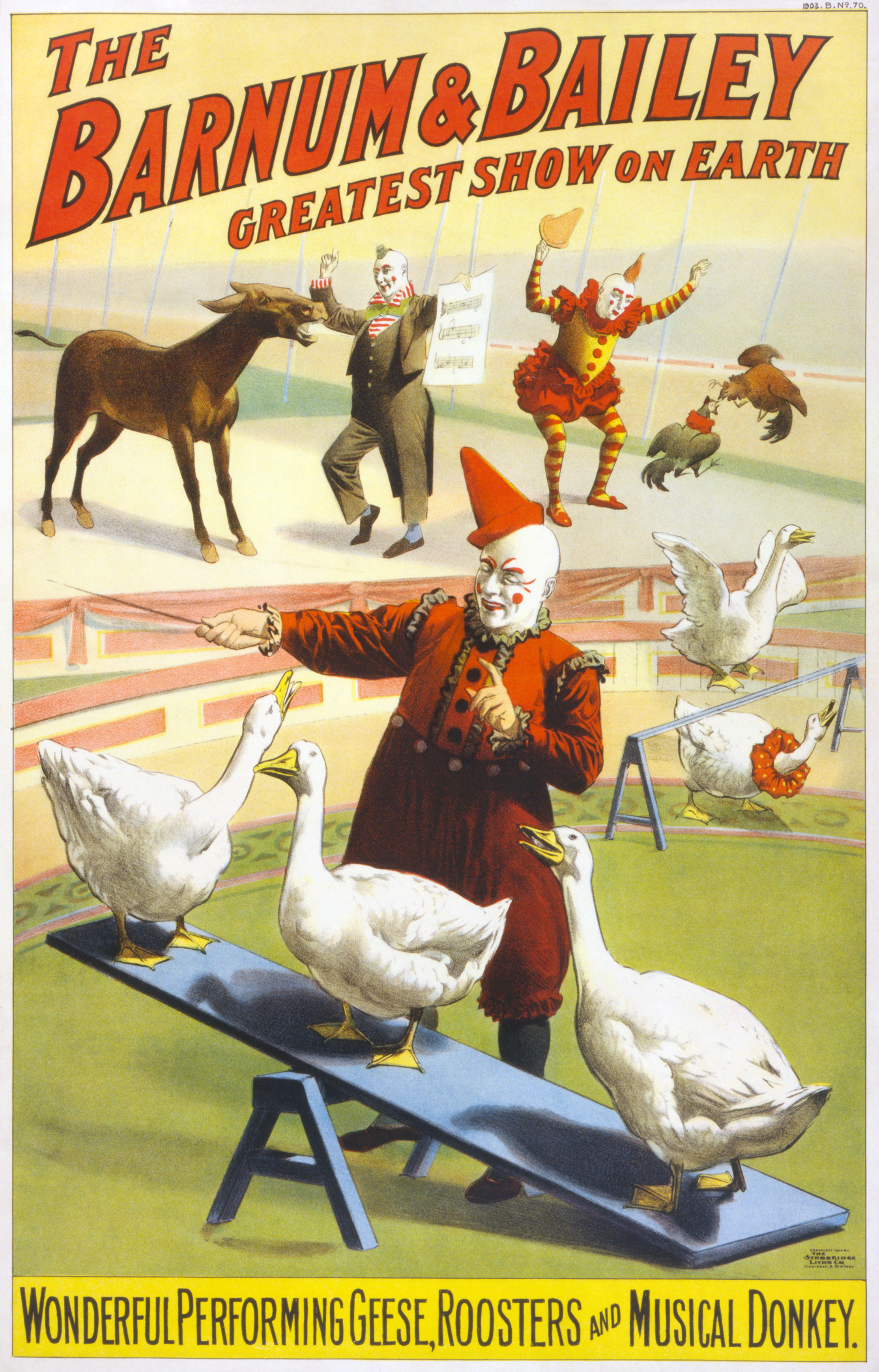 "The Barnum & Bailey greatest show on earth Wonderful performing geese, roosters and musical donkey". Chromolithograph.